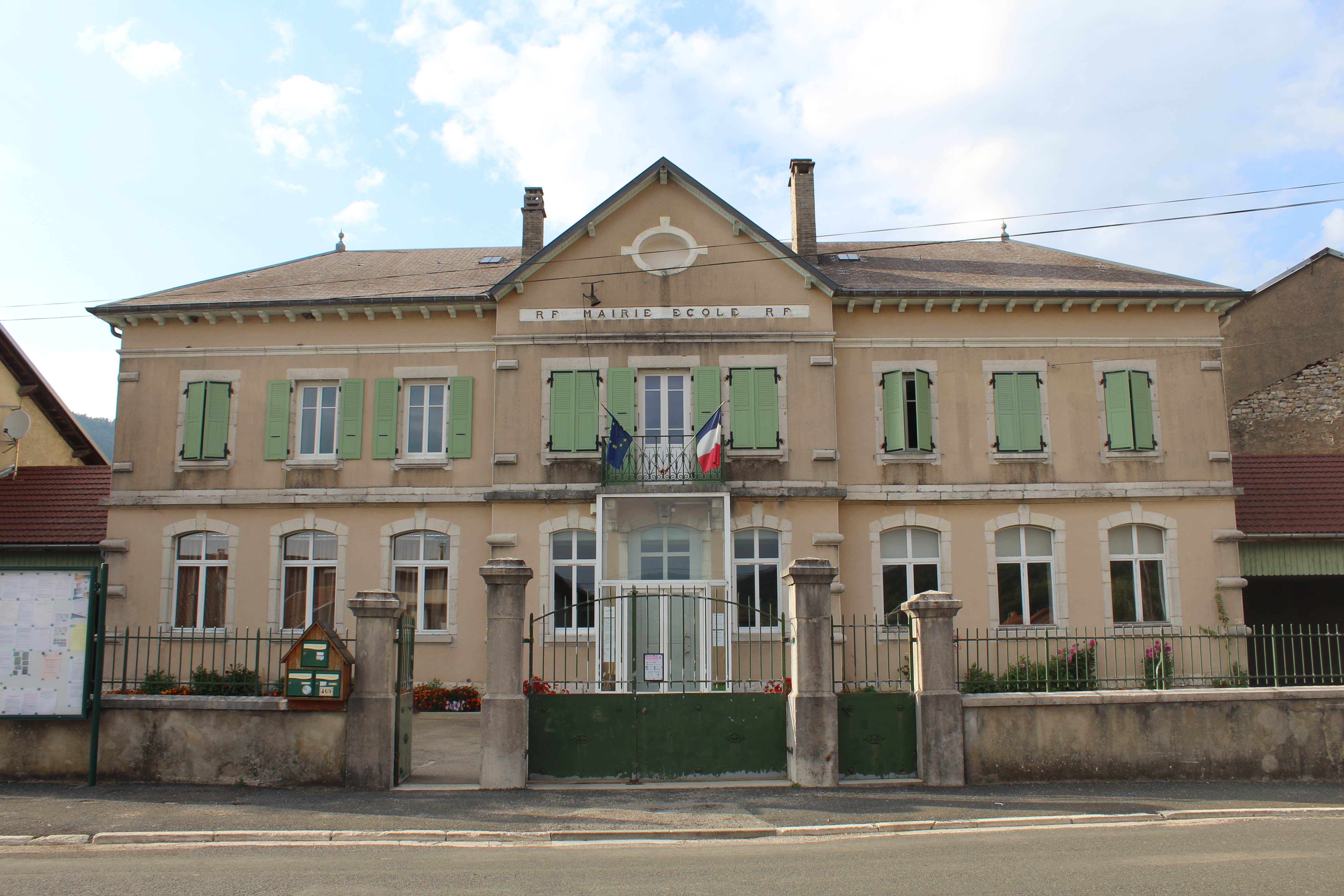 Unknown language: Mairie d'Izenave.